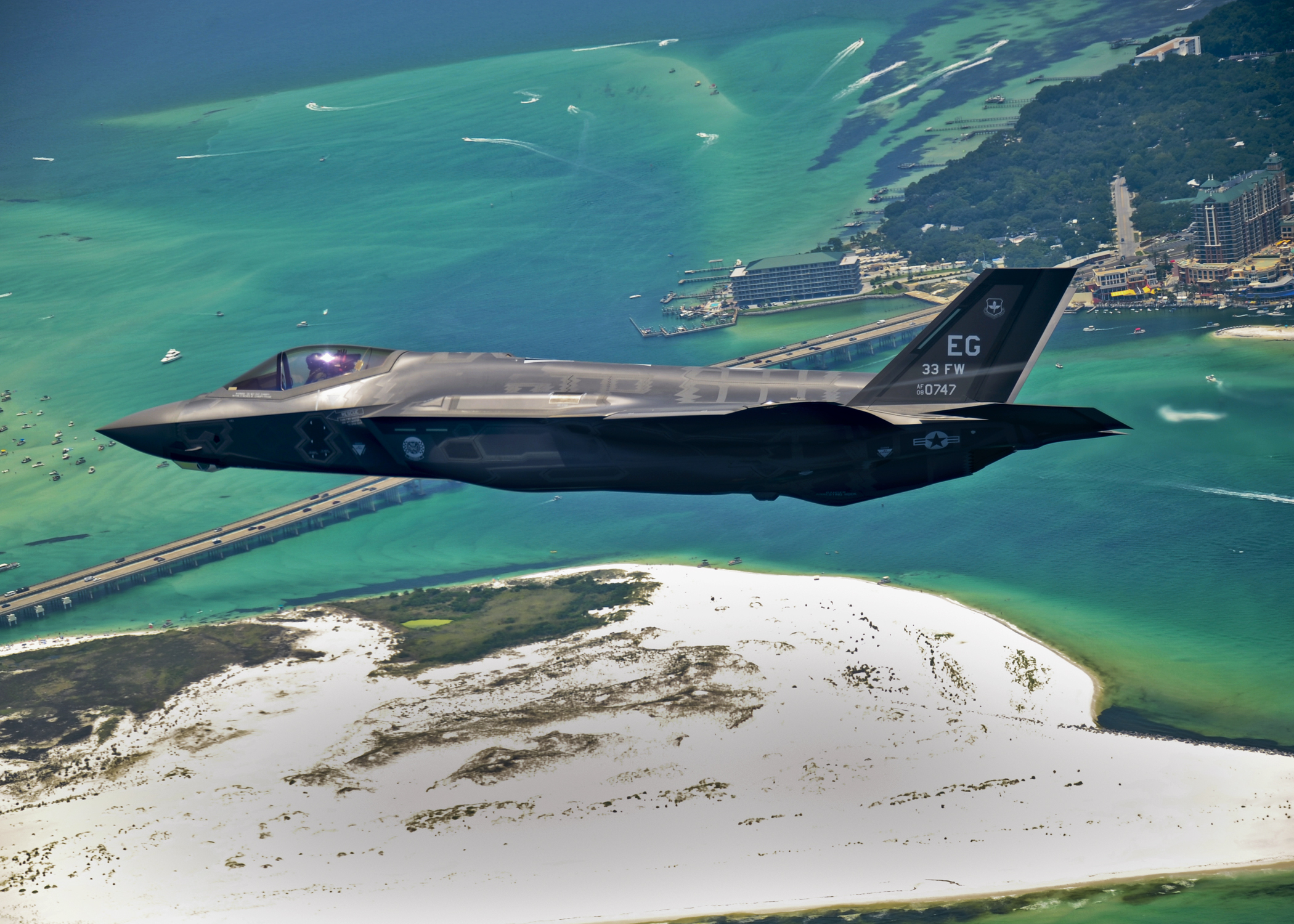 The Department of Defense's first U.S. Air Force F-35 Lightning II joint strike fighter (JSF) aircraft soars over Destin, Fla., before landing at its new home at Eglin Air Force Base, July 14, 2011. Its pilot, Lt. Col. Eric Smith of the 58th Fighter Squadron, is the first Air Force qualified JSF pilot.